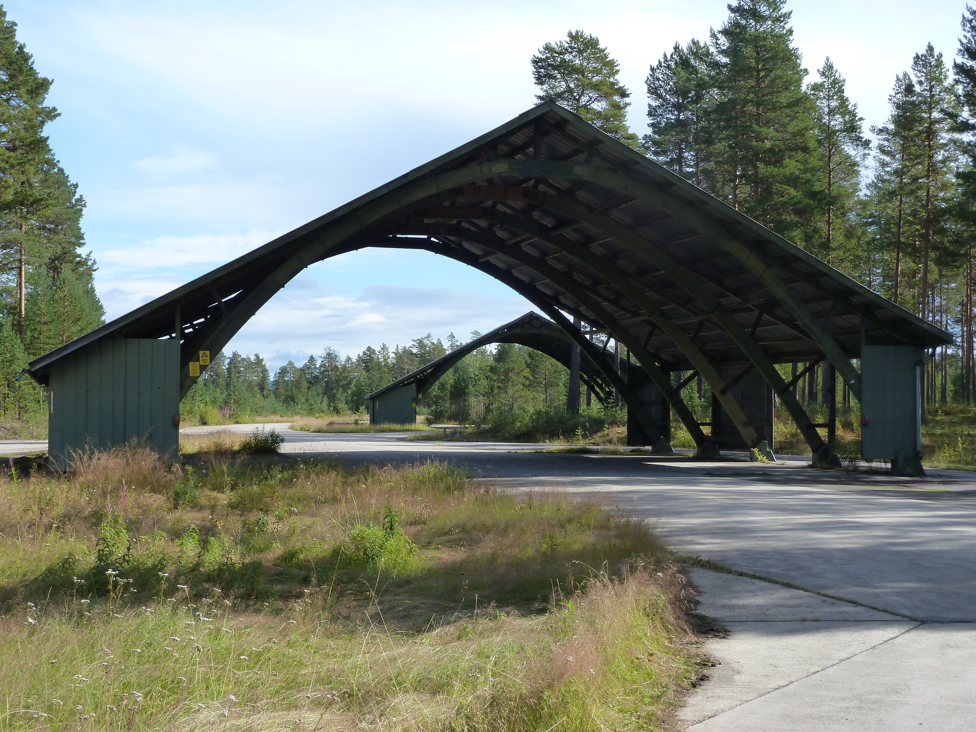 Buildings at Kubbe flygbas, Örnsköldsvik, Sweden.